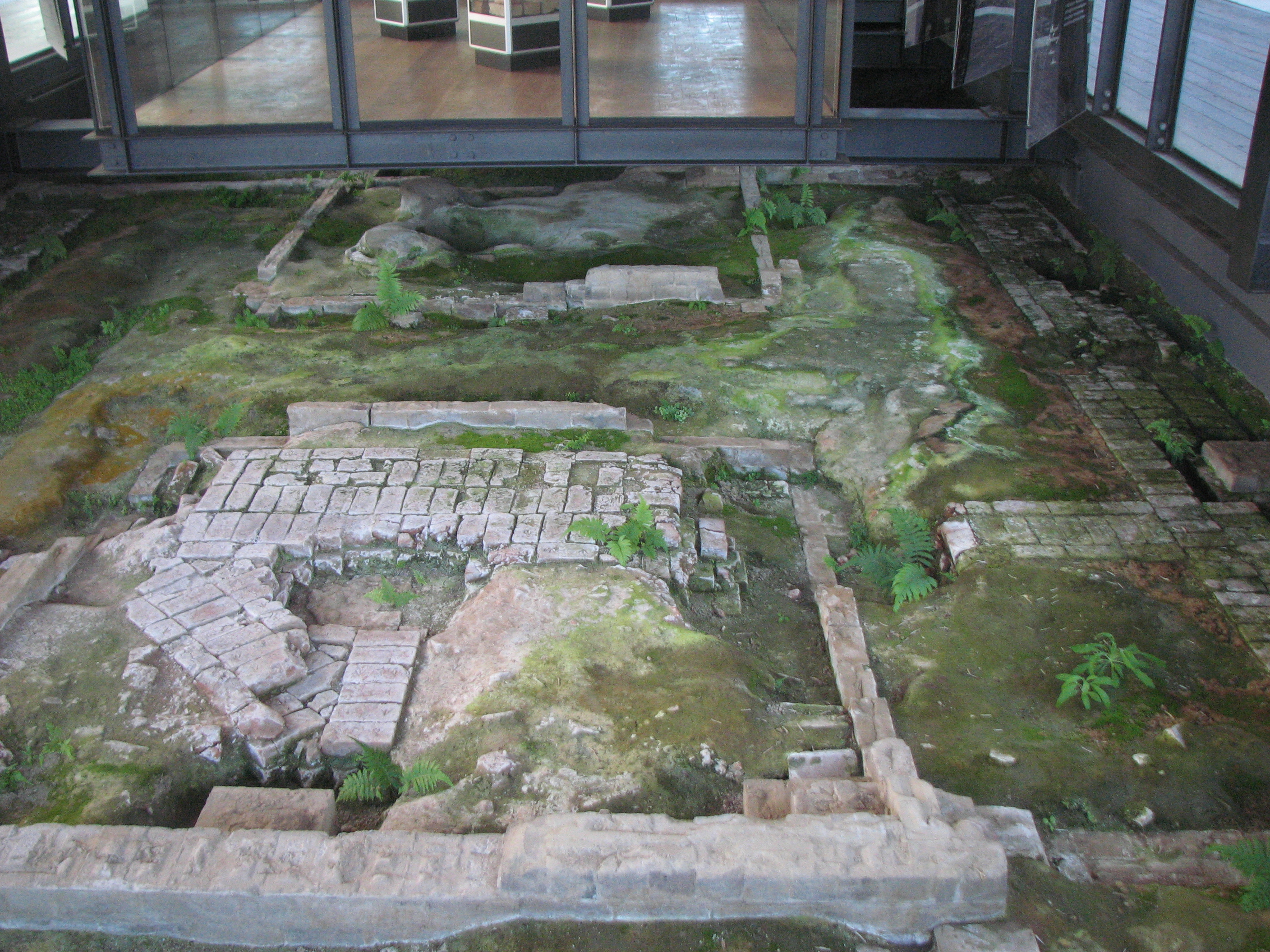 The Parramatta Hospital Archaeological Site is a heritage-listed archaeological site at Marsden Street, Parramatta. This photo shows the footings of the colonial hospital